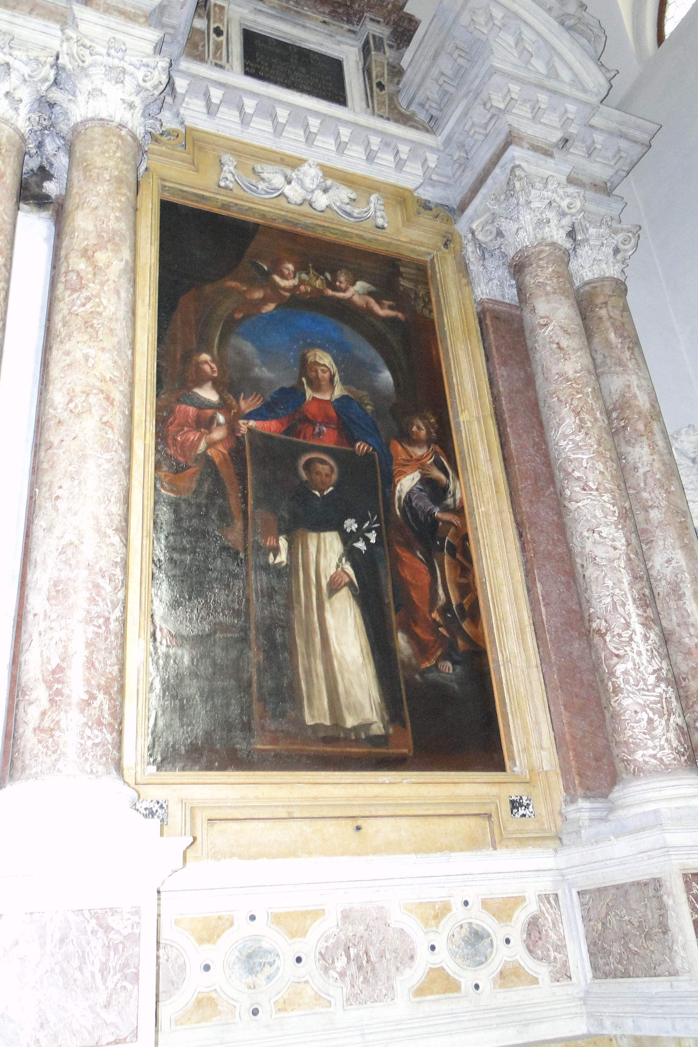 Painting of Visione di Soriano (St. Dominic Church in Bolzano, Italy) by Guercino